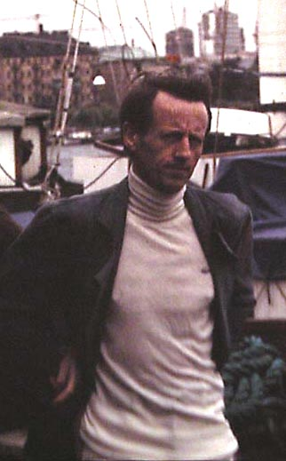 Pushwagner in front of Axel Jensen's ship "Shanti Devi" in Stockholm by the Mälaren shipyard © 1983 Robert E. Haraldsen